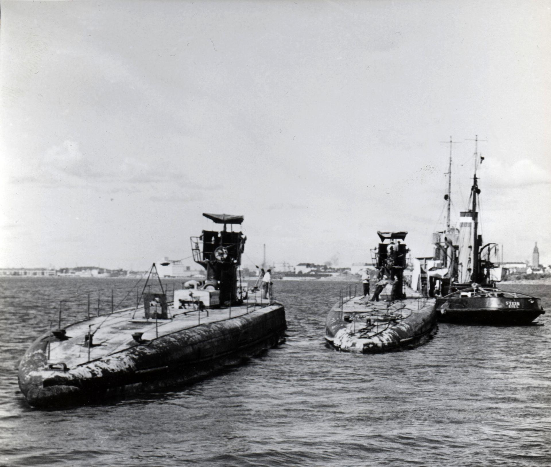 Photograph of the Finnish submarines Vesihiisi and Iku-Turso at Kruunuvuorenselkä, Helsinki, before demolition.